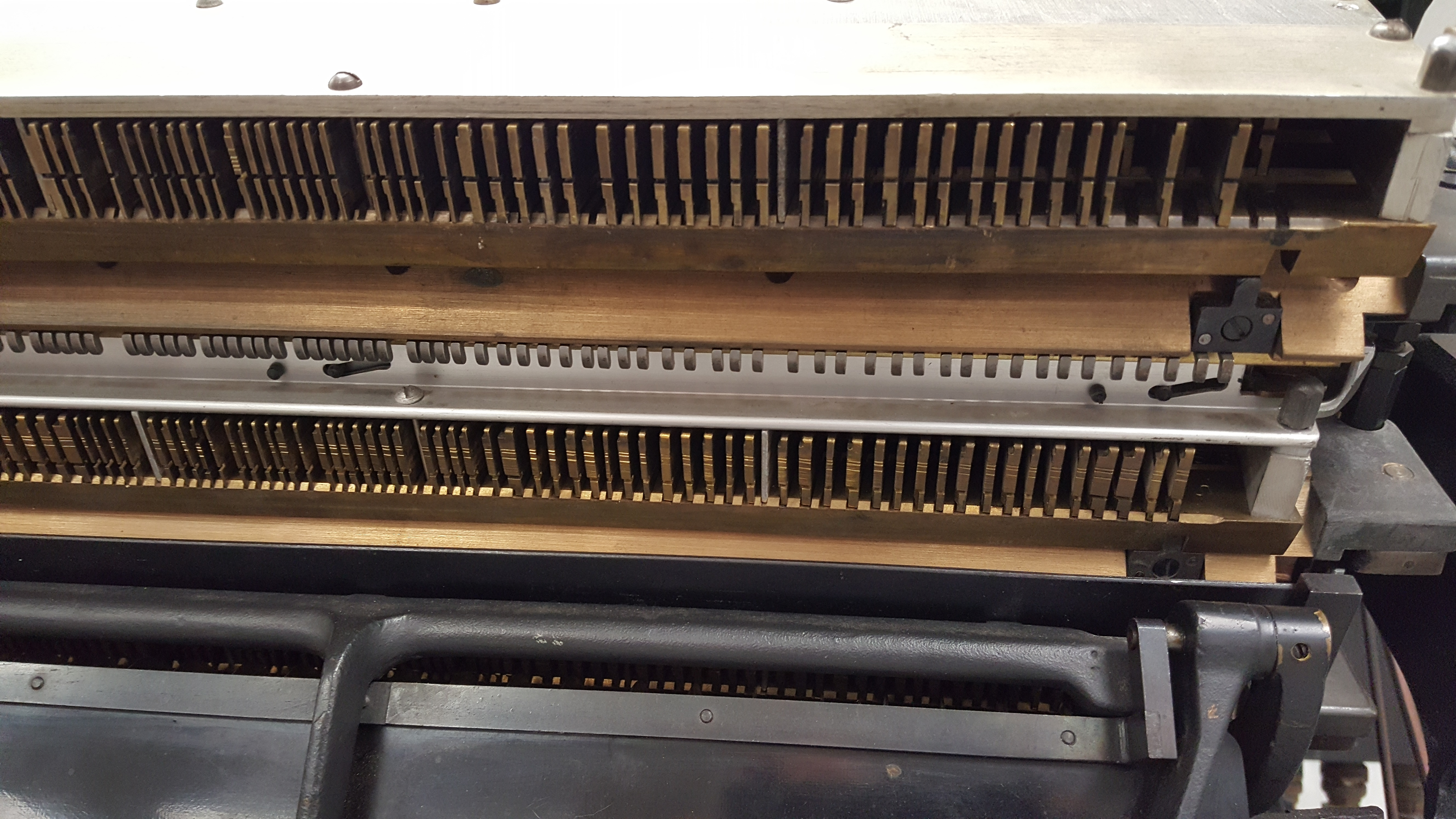 Linotype model 8 (4 magazine model), bottom edge of 2 top magazines, channels, and bottom of matrixes